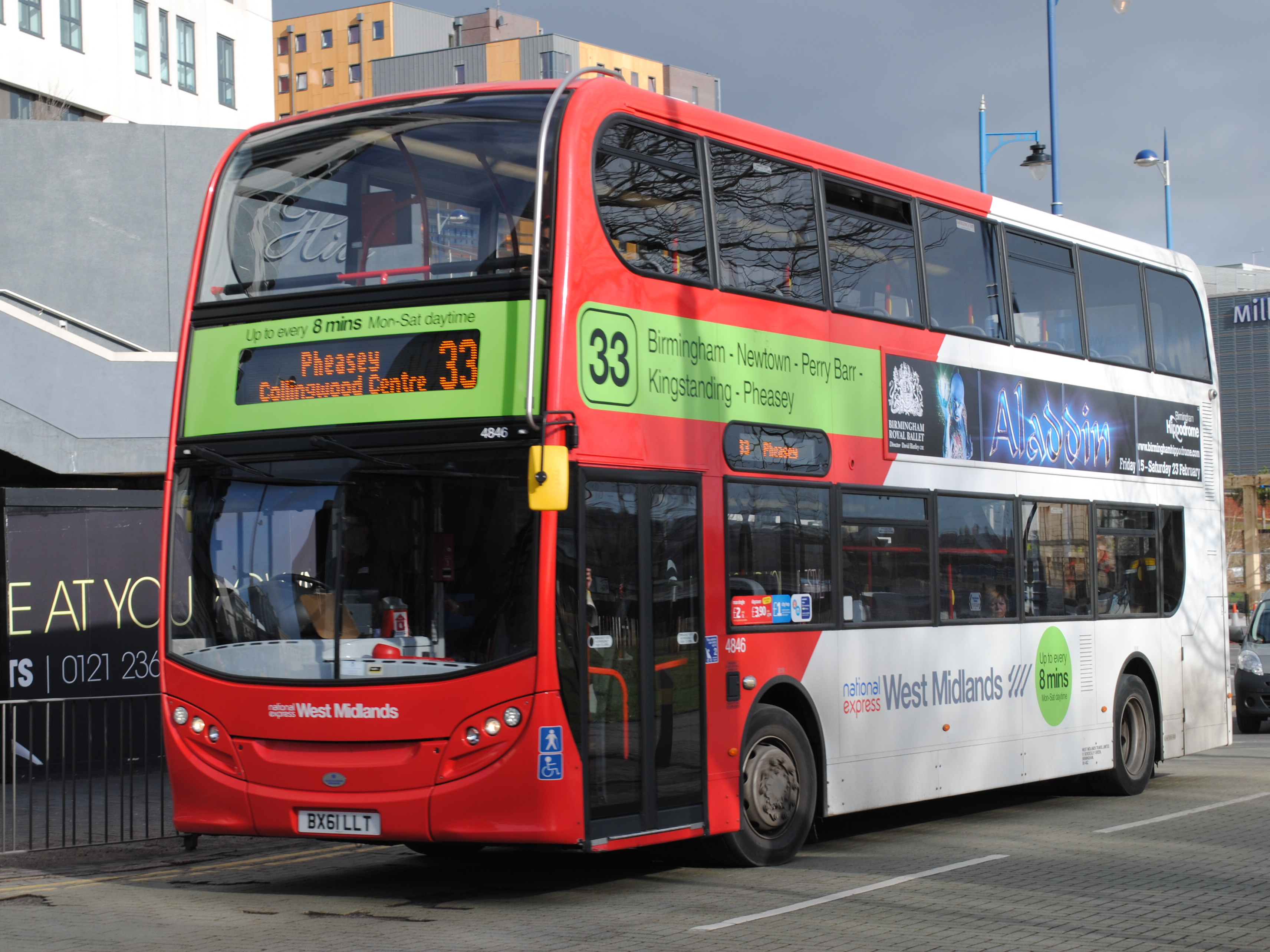 An example of a National Express West Midlands double decker bus.